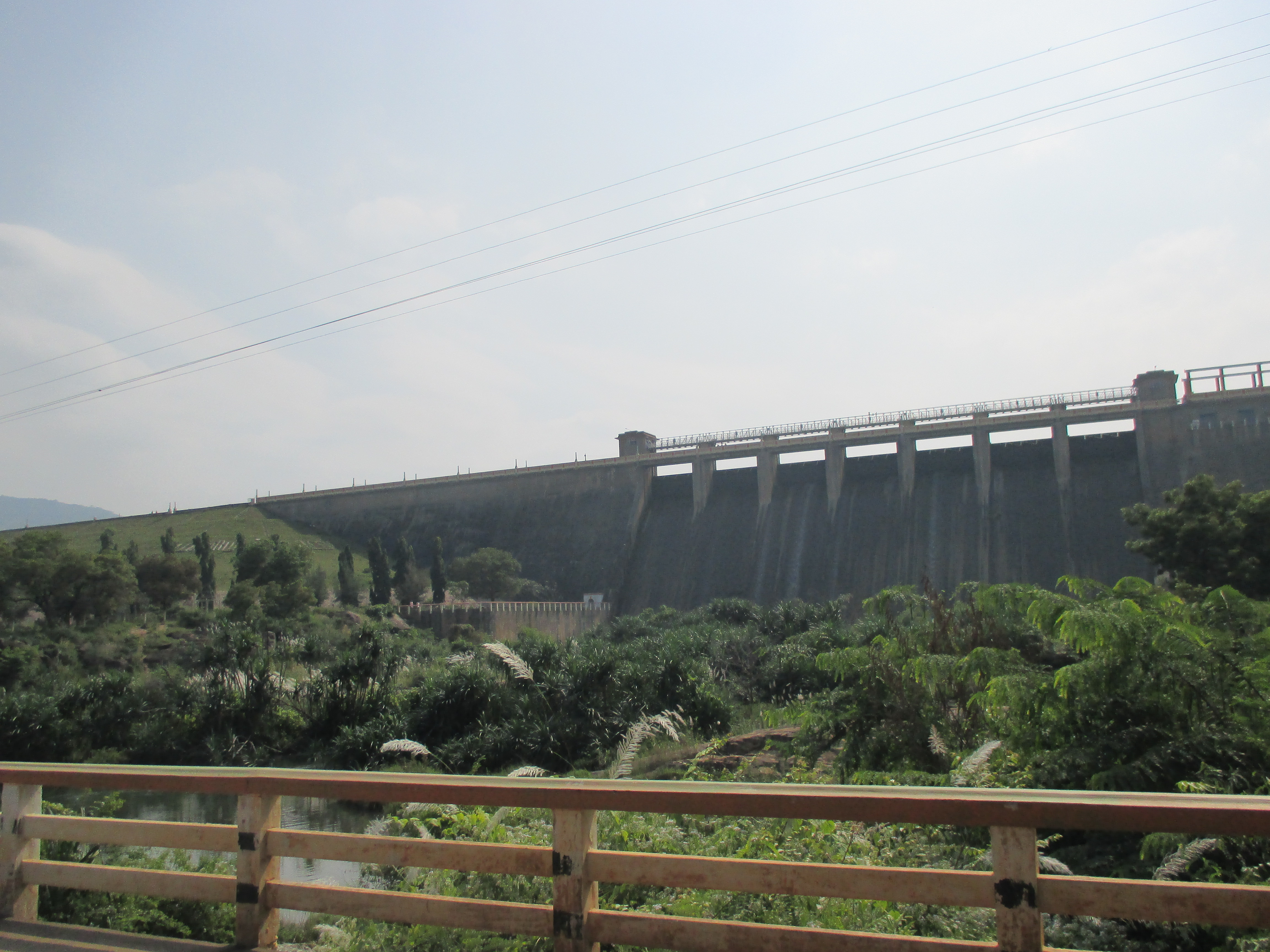 The image of spillway of Manimuthar anicut